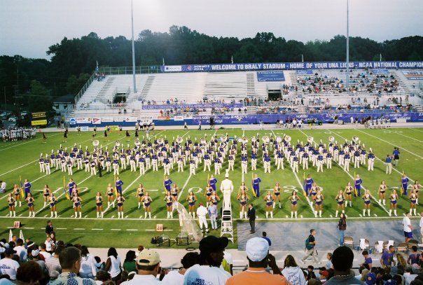 2006 Pride of Dixie Halftime Show